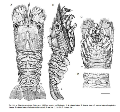 image